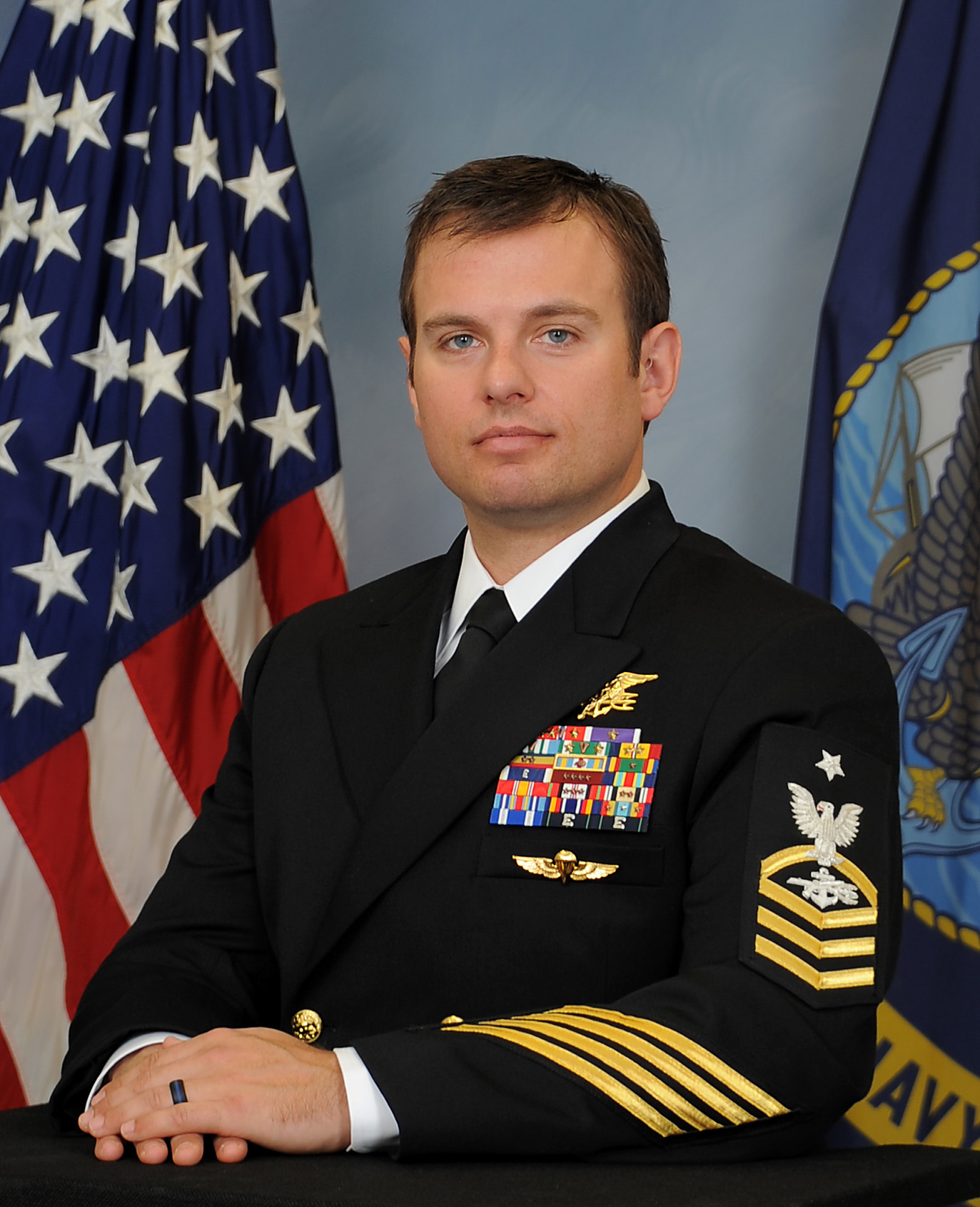 WASHINGTON (Feb. 24, 2016) Senior Chief Special Warfare Operator (SEAL) Edward C. Byers Jr. will be awarded the Medal of Honor by President Barack Obama during a White House ceremony Feb. 29. Byers is receiving the medal for his actions during a 2012 rescue operation in Afghanistan. (U.S. Navy photo/Released) 160224-N-ZZ999-110 Join the conversation: navylive.dodlive.mil